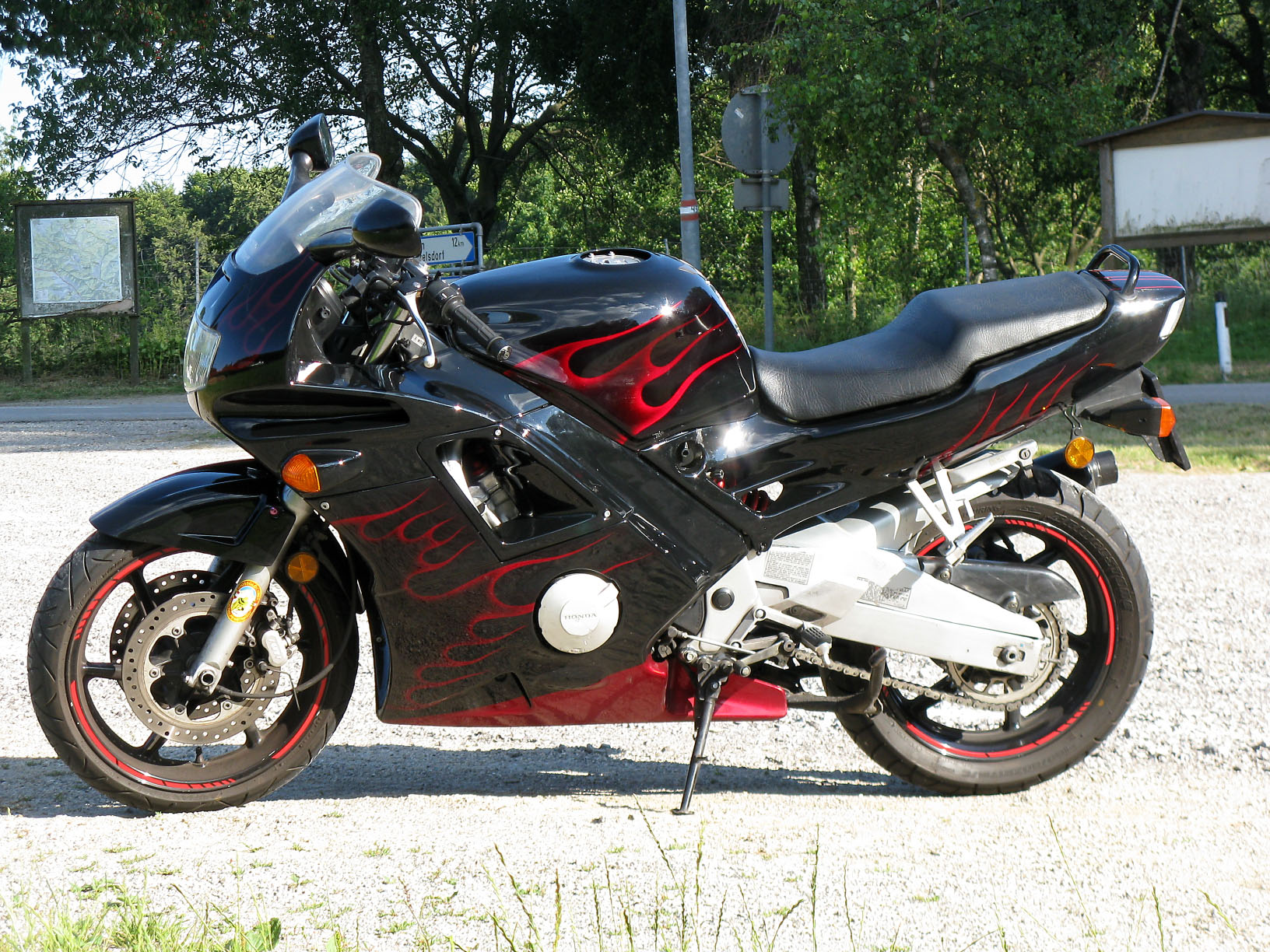 Honda CBR 600 F 1993